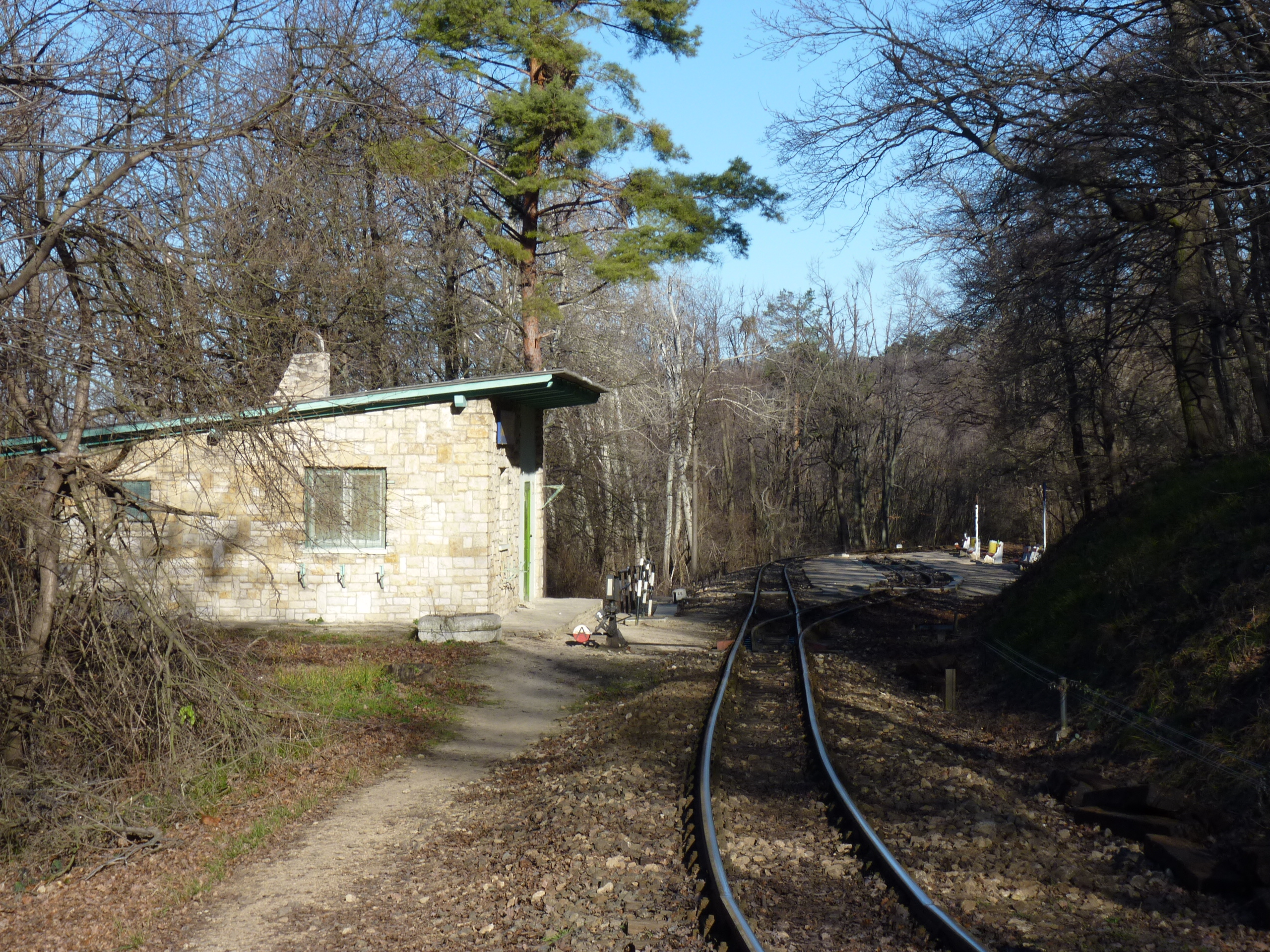 János-hegy train station of the Budapest Children's Railway